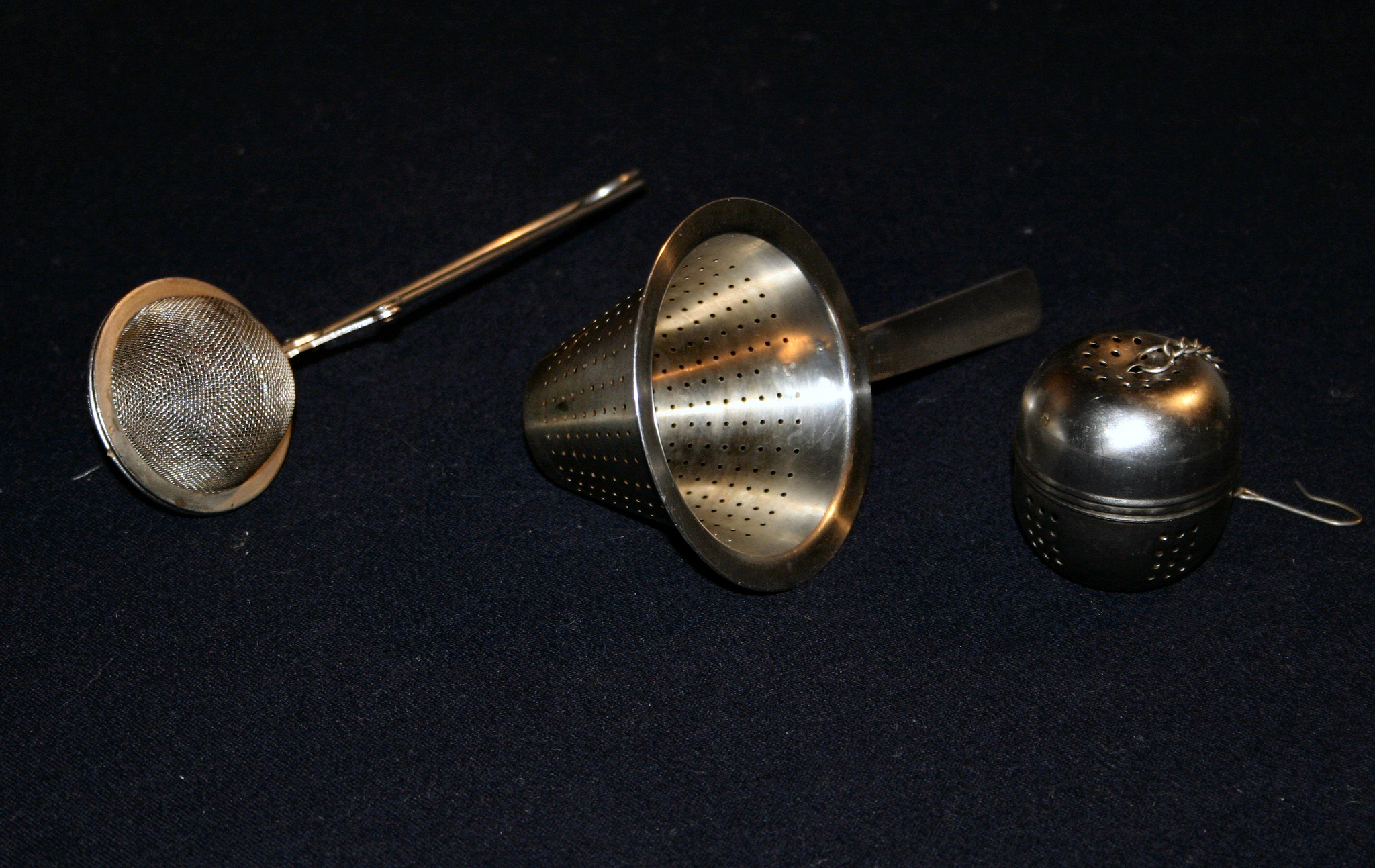 Three types of tea infuser